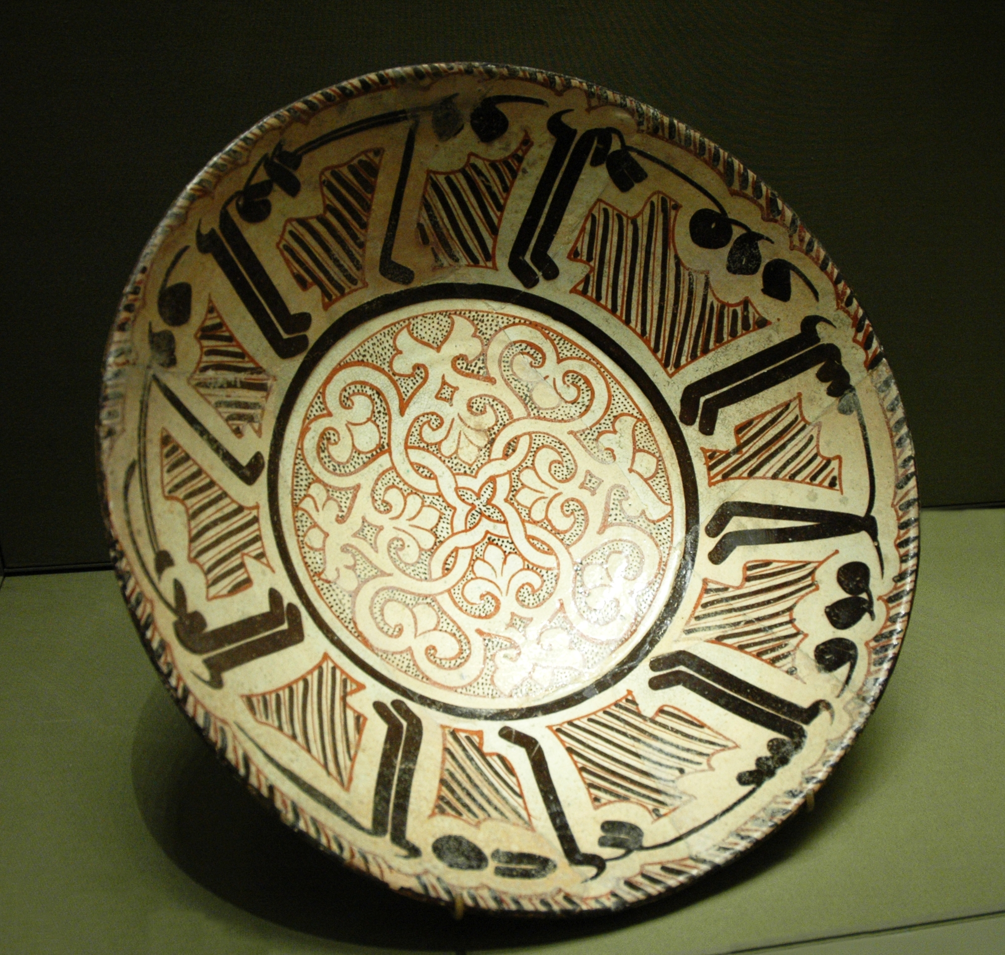 Bowl with votive inscriptions in Kufic script. Terracotta, slipped decoration painted on slip and under glaze, 10th-11th century, Nishapur (Tepe Madraseh). Metropolitan Museum of Art (MET 40.170.15)